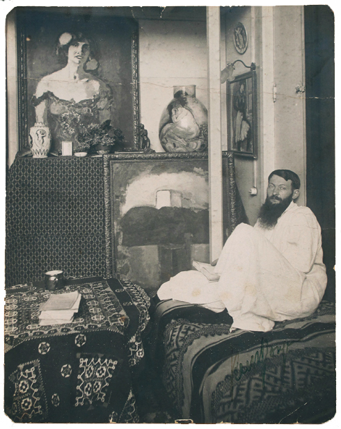 Kees Van Dongen in his studio 6 rue Saulnier, Paris